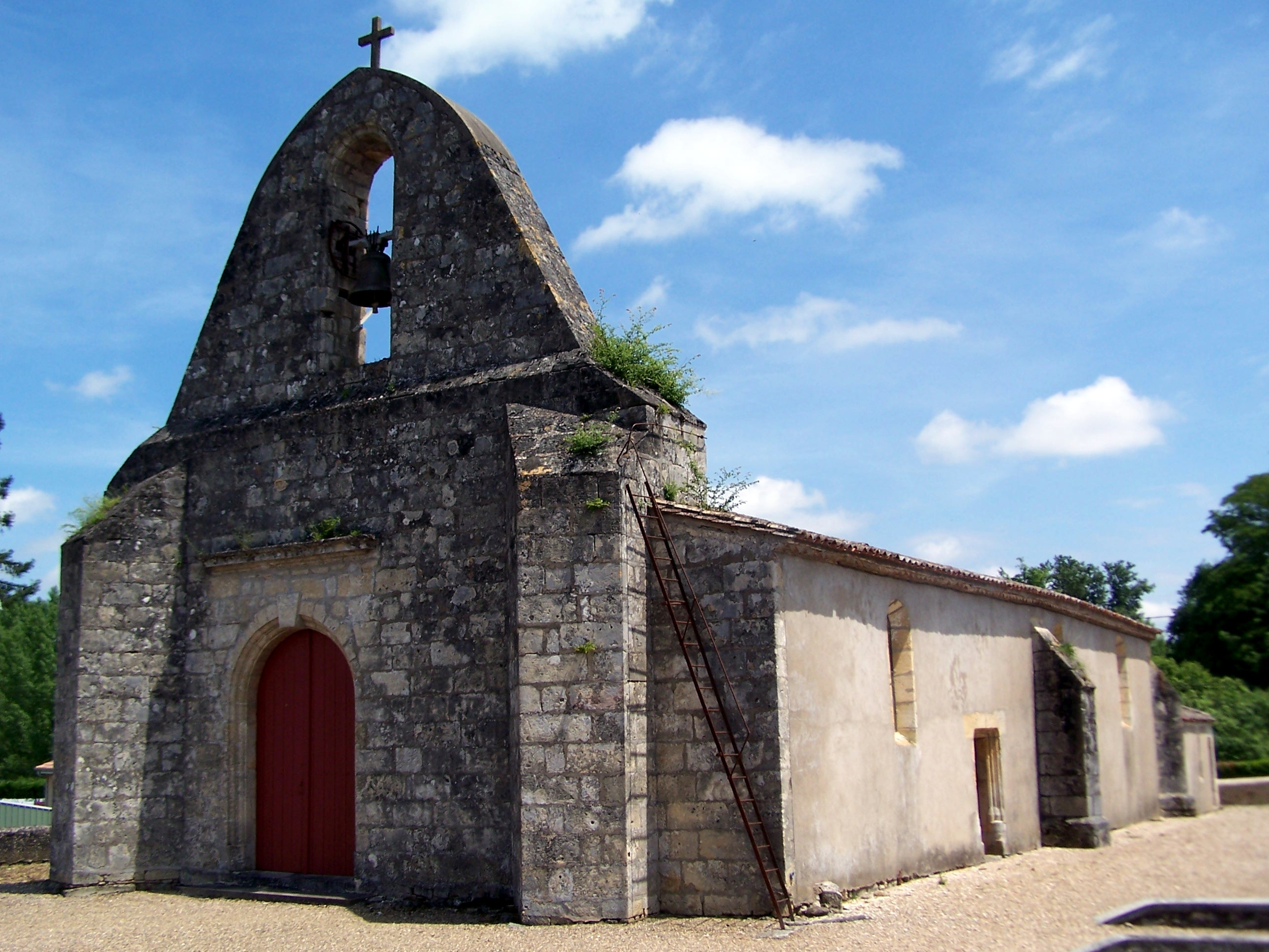 Saint-Seurin church of Cantois (Gironde, France)